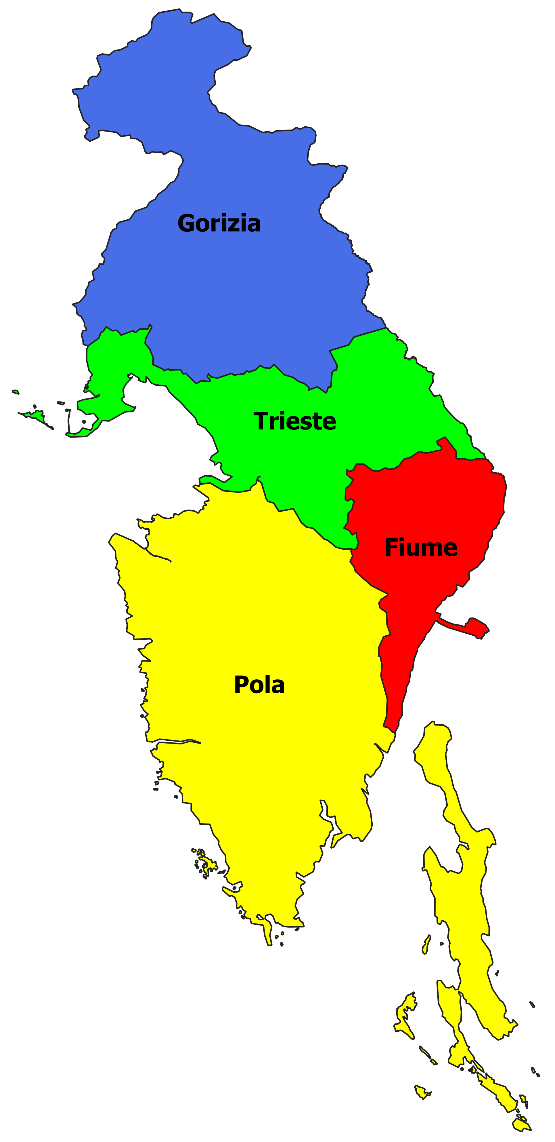 Provinces of Venezia Giulia in the 1923 -1947 period: Gorizia, Trieste, Fiume, Pola. Zara's one isn't depicted.